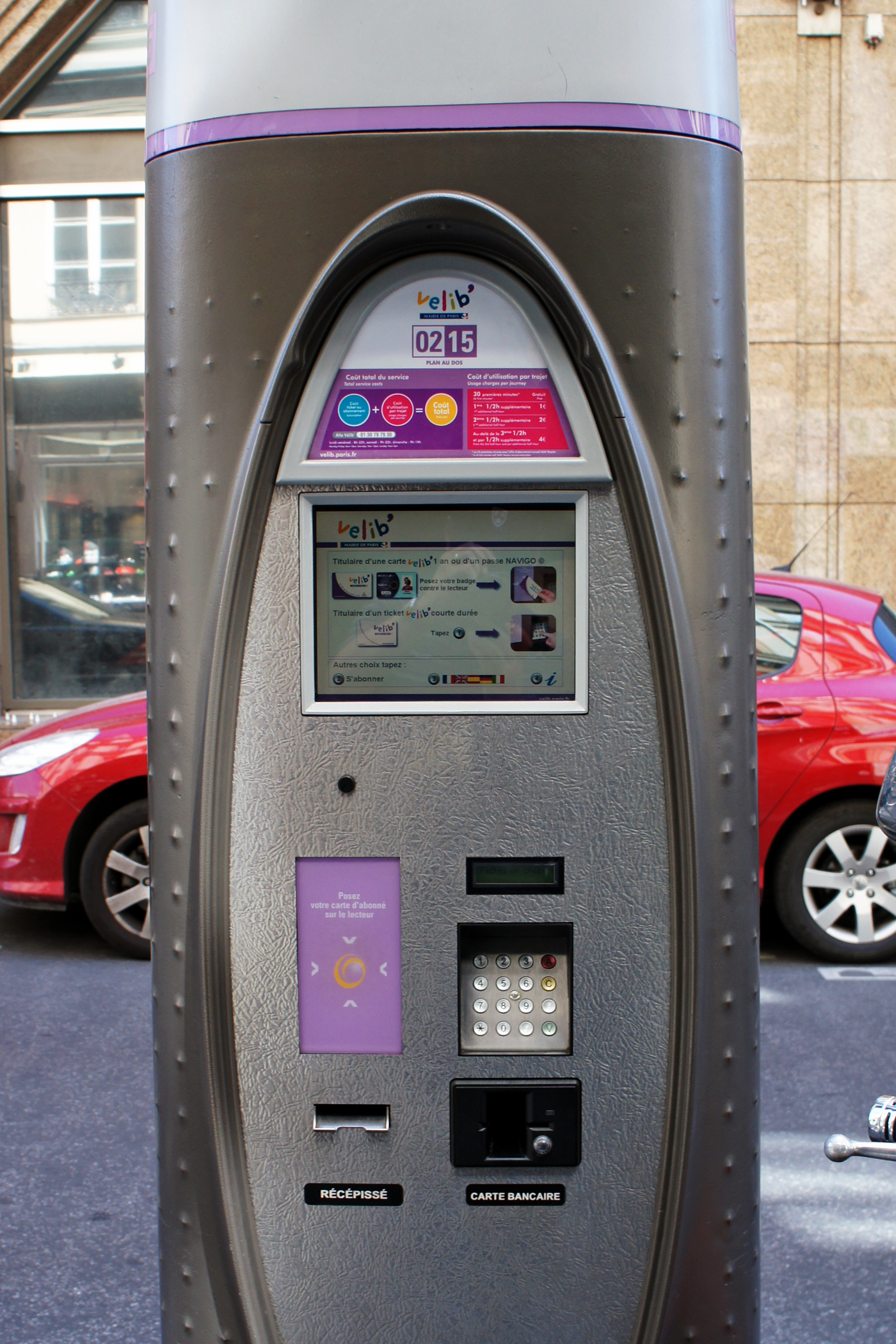 Smart card machine at automated Vélib’ bike sharing station. Paris, France.